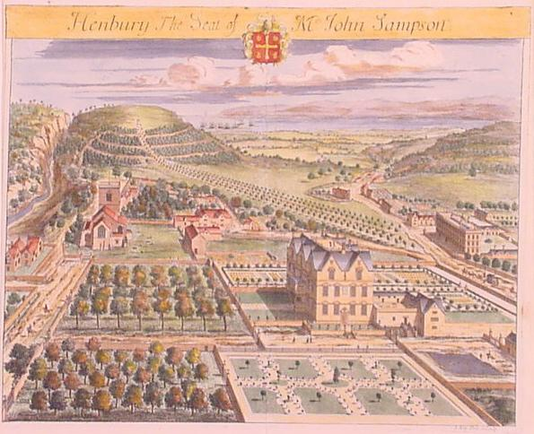 Copper engraving, 'Henbury the Seat of Mr John Sampson', from Britannia Illustrata, or Views of Several of the Queens Palaces also of the Principal Seats of the Nobility and Gentry of Great Britain (London, 1709)